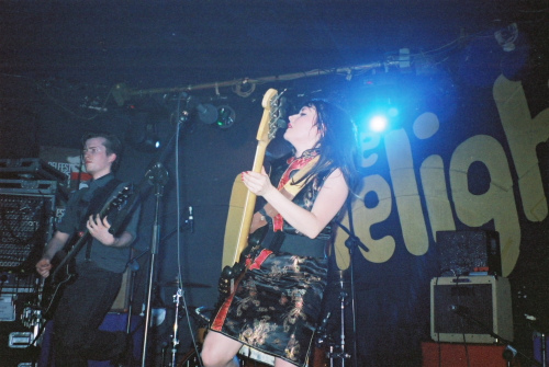 Sons and Daughters performing in the Limelight, Belfast, November 2005.